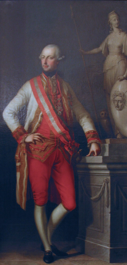 Portrait of Joseph II (1741-1790), Holy Roman Emperor